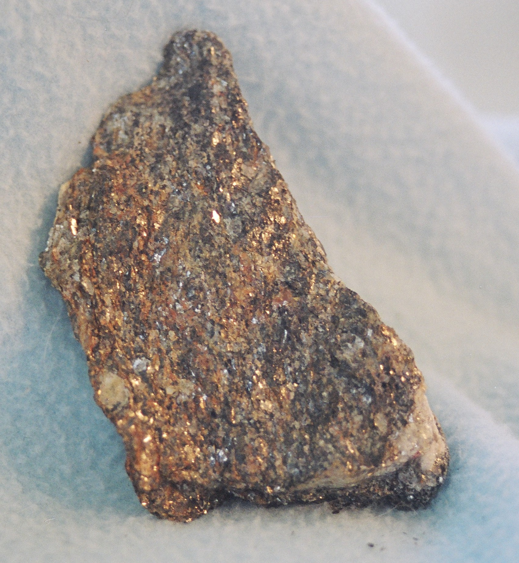 Manhattan Schist from Southeastern New York state, USA. Photo taken by myself on 3-13-05. A very flaky kind of medium-grade metamorphic rock. I picked it up in New York.